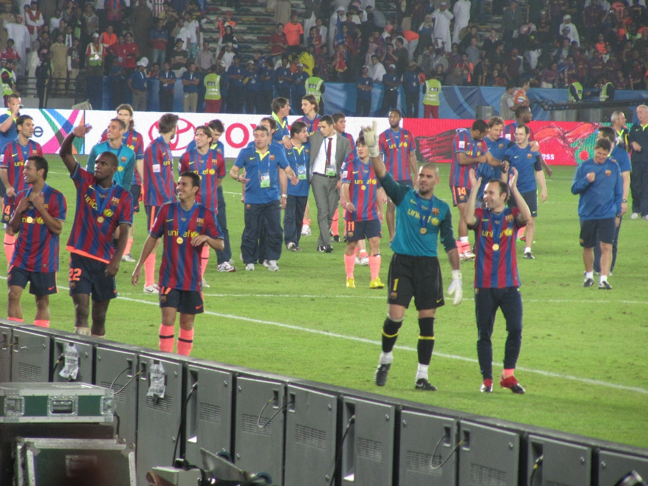 Barcelona players celebrate after the final of 2009 FIFA Club World Cup